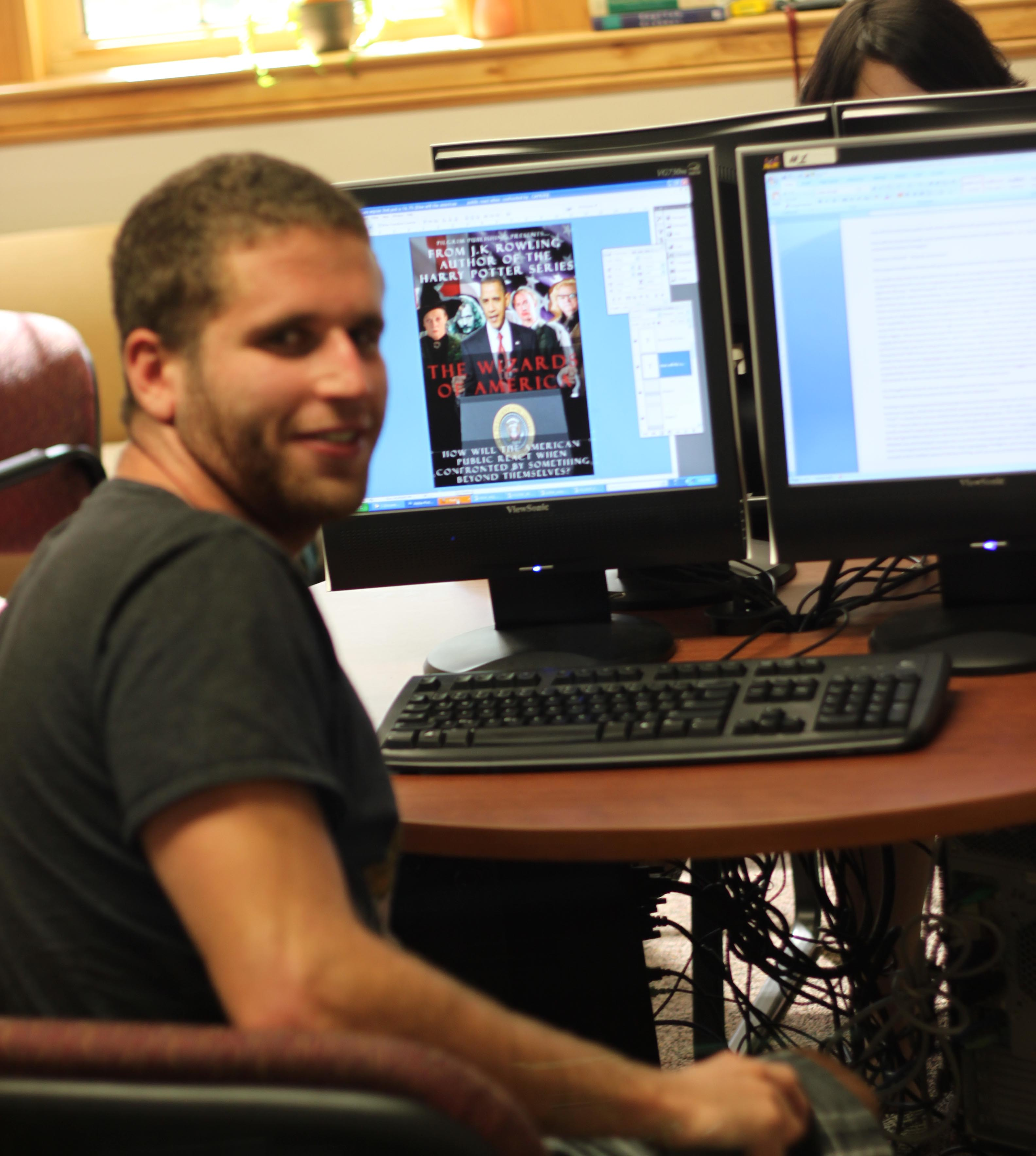 picture of Sam working on his project in the FSU Digital Studio